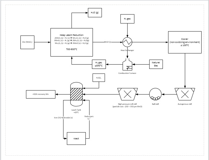 Process flow diagram for a manganese refining circuit. Contains reactions and temperatures, as well as showing advanced processes such as the heat exchanger and milling process.